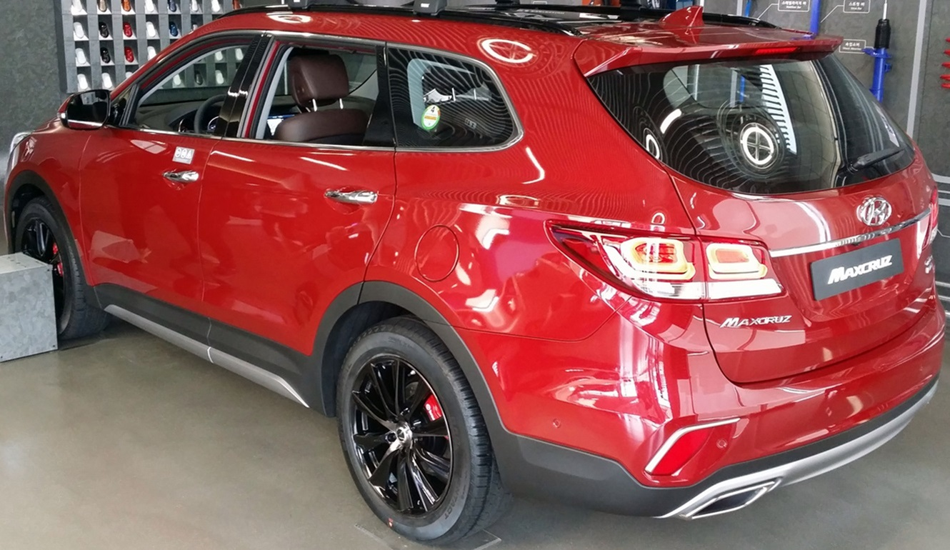 Hyundai The New Maxcruz